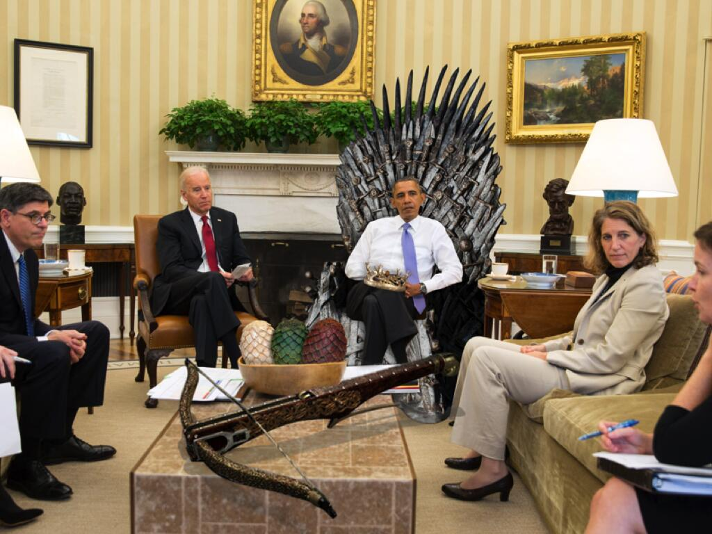 U.S. President Barack Obama and other government officials in a meeting in the Oval Office in the White House. The photo has been edited to make Obama appear to sit on the Iron Throne from the TV series Game of Thrones, and props from the series have also been added to the image. Posted on the White House Twitter feed as "The Westeros Wing", in allusion to the TV series The West Wing and the fictional continent in Game of Thrones, Westeros.